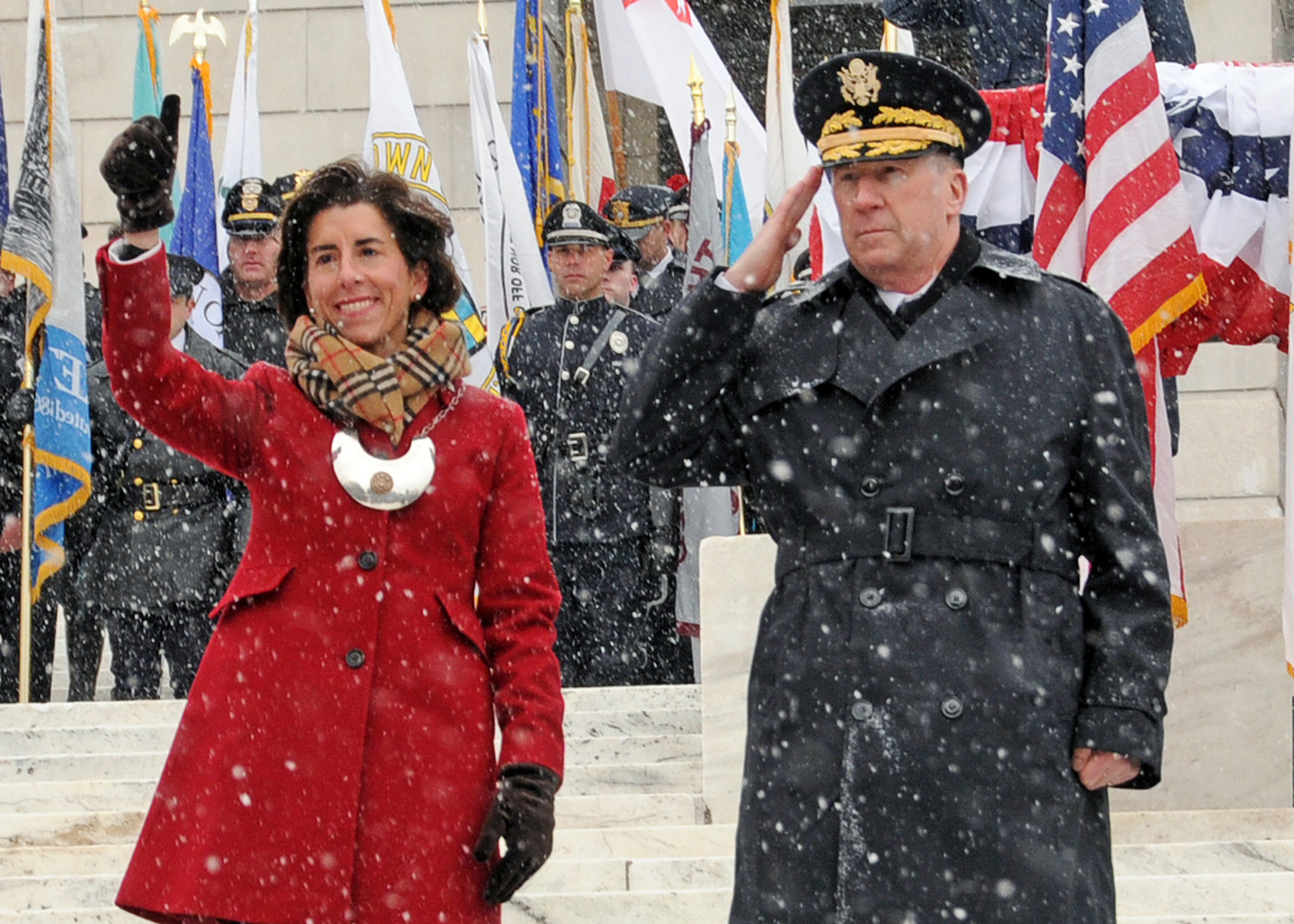 Gov. Gina Raimondo, governor of the State of Rhode Island, gives the thumbs up symbol to the crowd during her inauguration ceremony held at the Rhode Island State House, Providence, Rhode Island, Jan. 6, 2015. Maj. Gen. Kevin R. McBride, adjutant general, commanding general of the Rhode Island National Guard salutes during the rendering of honors to the incoming governor. (National Guard Photo by Master Sgt Janeen Miller/Released)